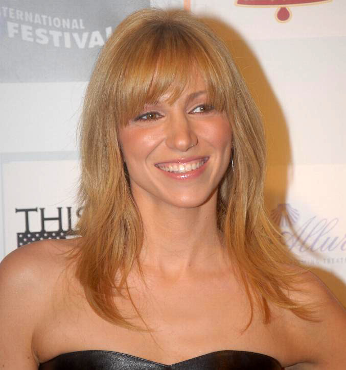 Debbie Gibson at the Cinema City Film Festival